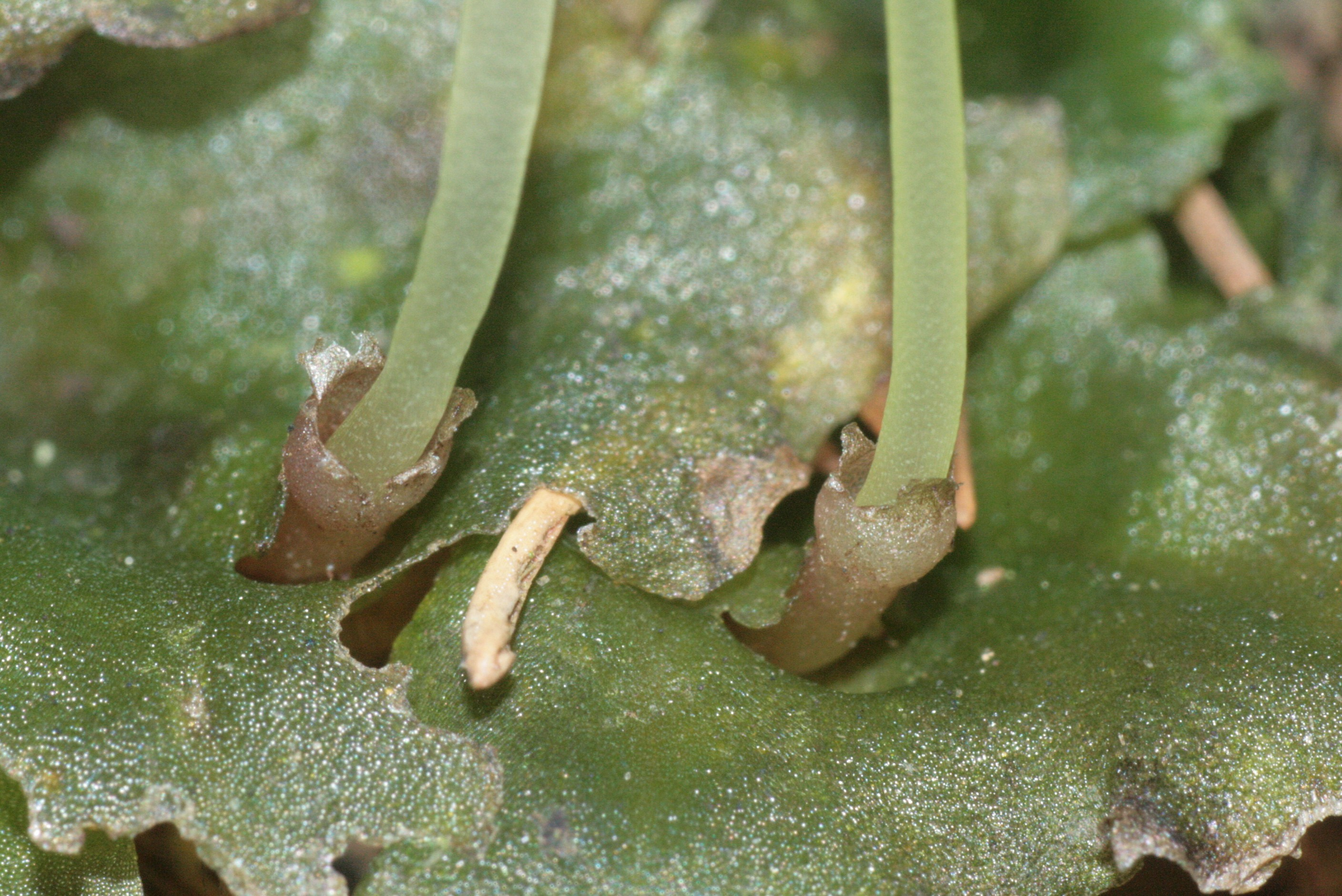 Pellia epiphylla